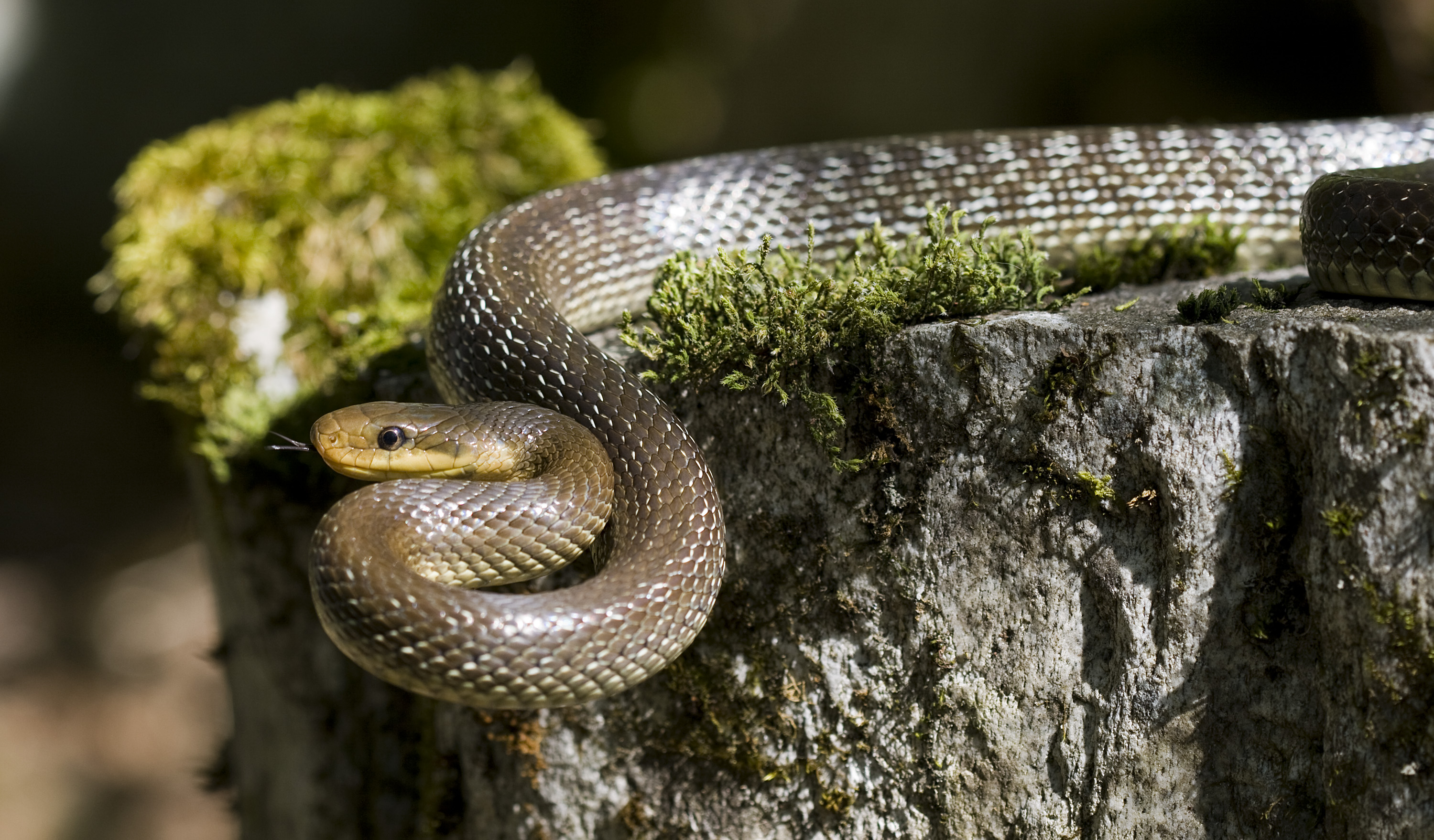 Zamenis longissimus, seen in Ticino, Switzerland, in the wild